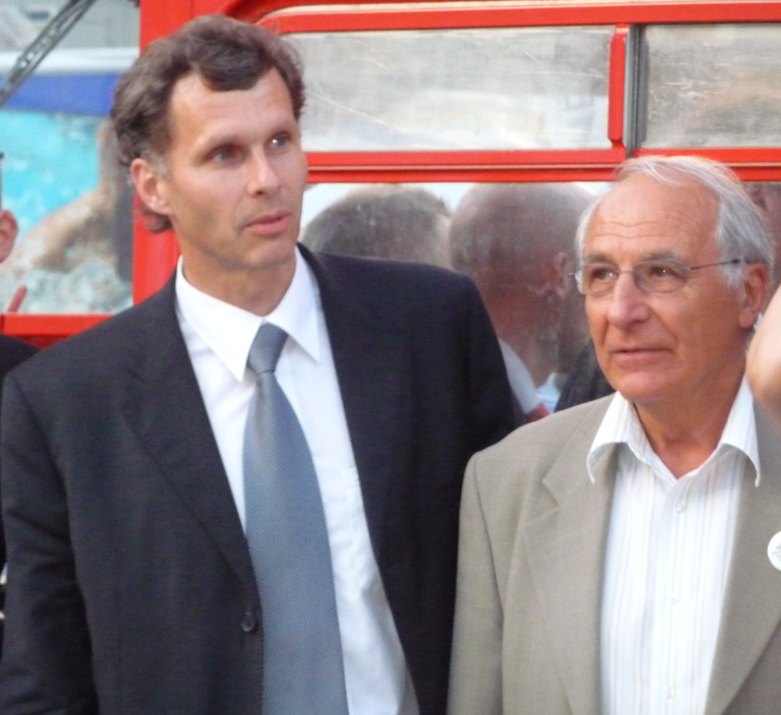 Jiří Kejval (left) and Milan Jirásek (right) during joint photographing behind Double-decker, Žijeme Londýnem, Freedom Square, Brno